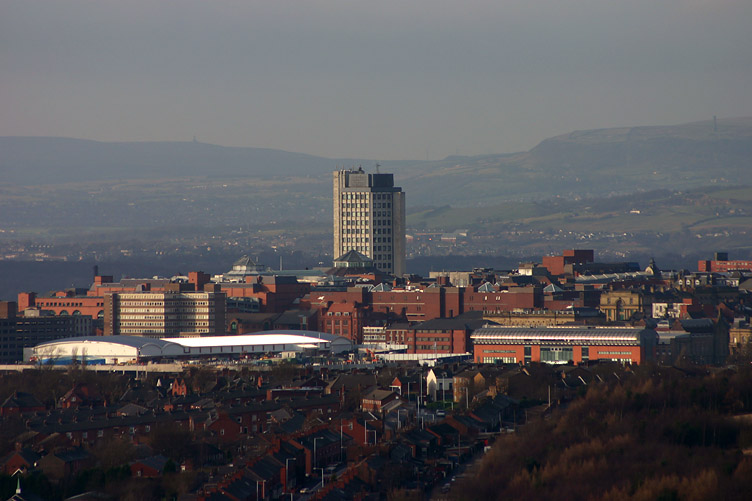 Status: Free to use image of Oldham town centre. Photographer: Mr. Matthew Rees Profile of work) Date taken: 17 January 2004 Rationale: Unique and professional image of Oldham town centre, and suitable for the Wikipedia article of Oldham.